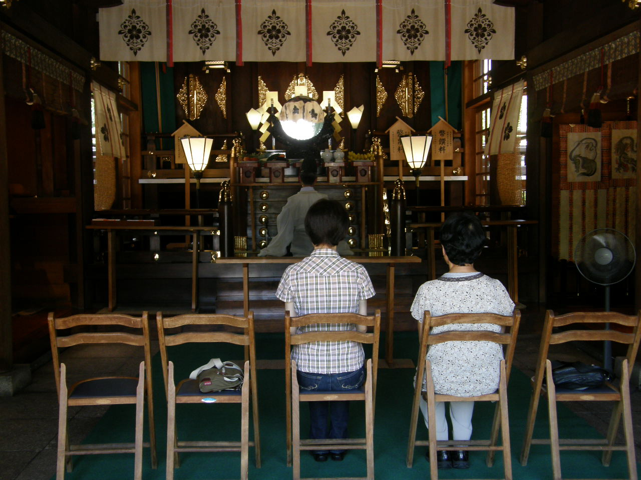 Himeji-gokoku-jinja 姫路護国神社・御祓い